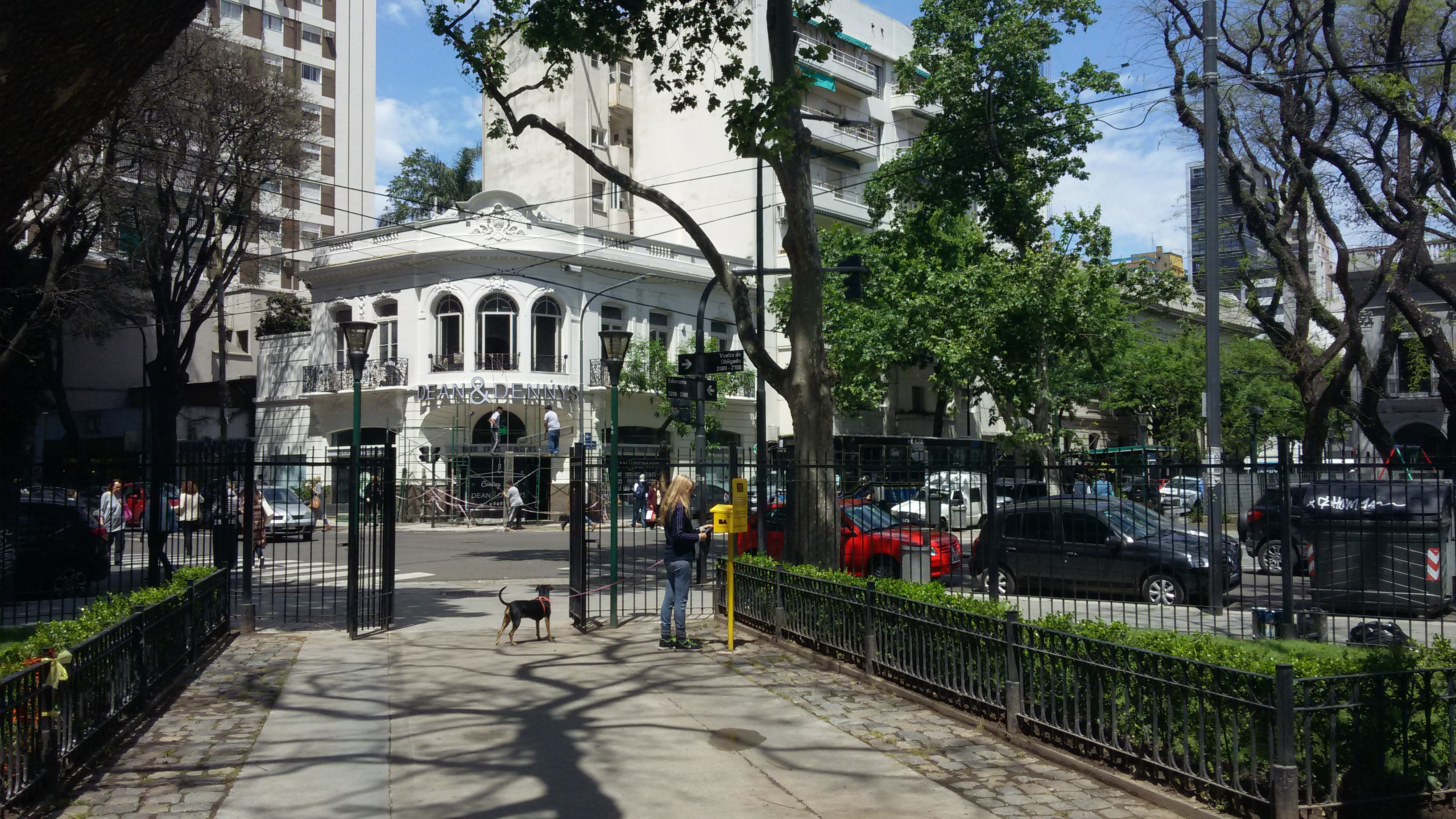 Belgrano Square in Buenos Aires